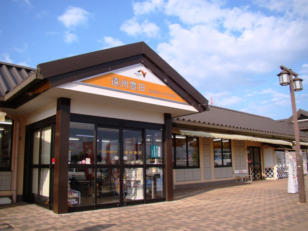 Enshu-toyoda parking area Tomei expressway Shizuoka Japan